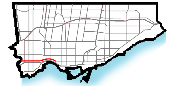 Map of The Queensway in Toronto